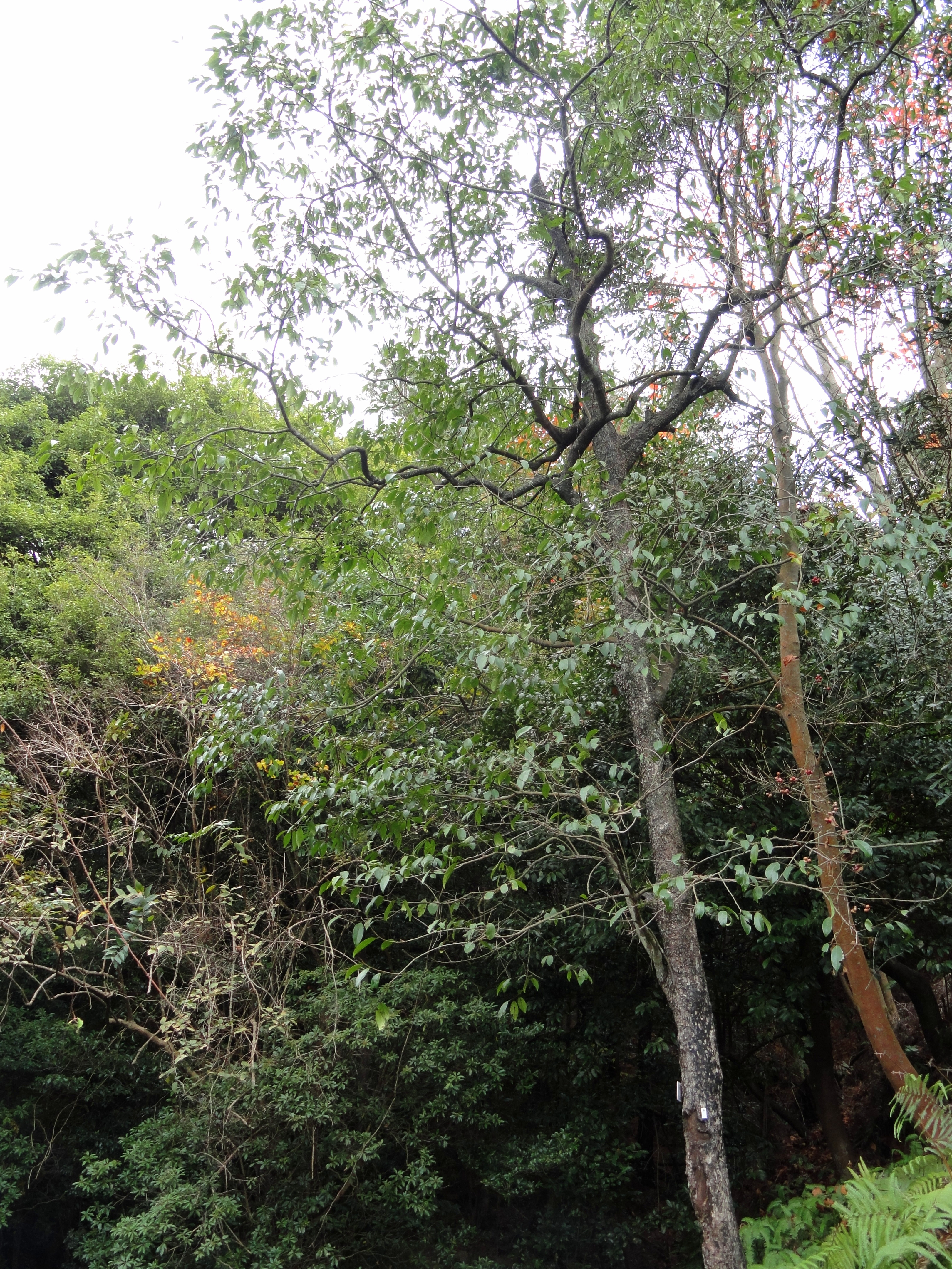 Botanical specimen in the Miyajima Natural Botanical Garden, Hatsukaichi, Hiroshima, Japan.